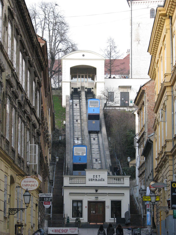 Zagreb Funicular